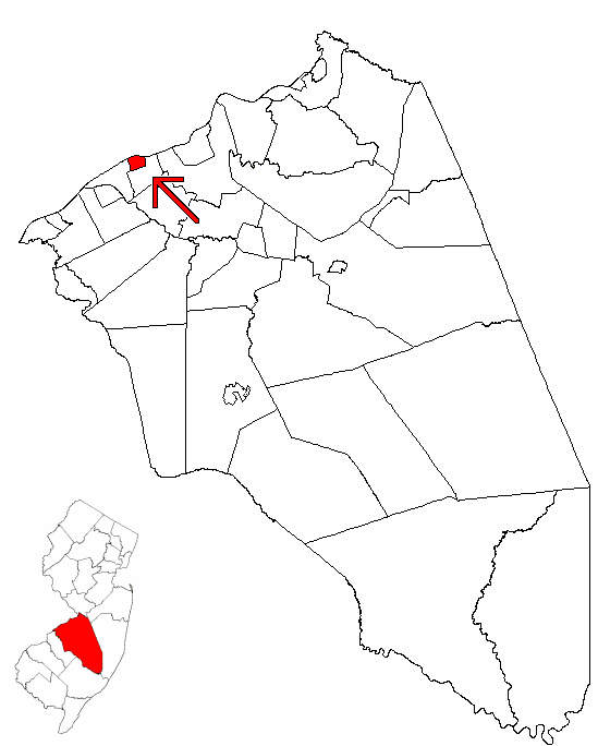 Map of Burlington County highlighting Beverly